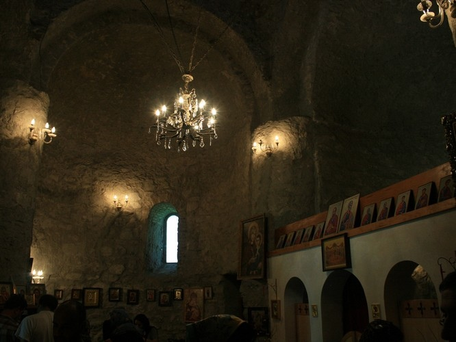 Dzveli Gavazi church, Georgia